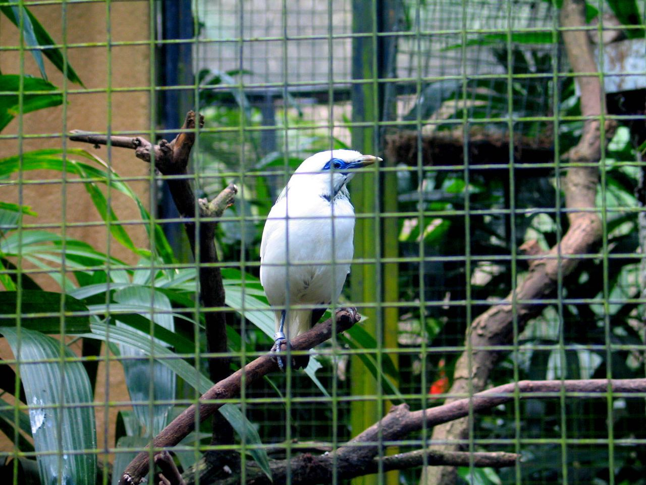 Bali Starling, (Leucopsar rothschildi). Bali Starling at Bali Bird Park.